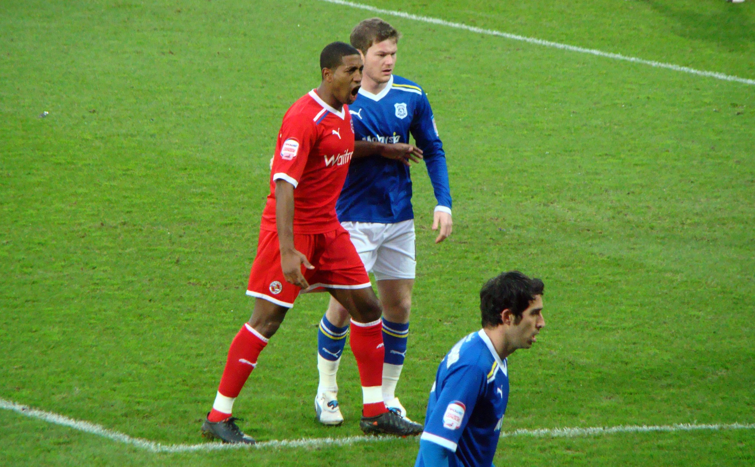 02/01/12 Cardiff V Reading, Championship, Cardiff City Stadium, Cardiff, Wales